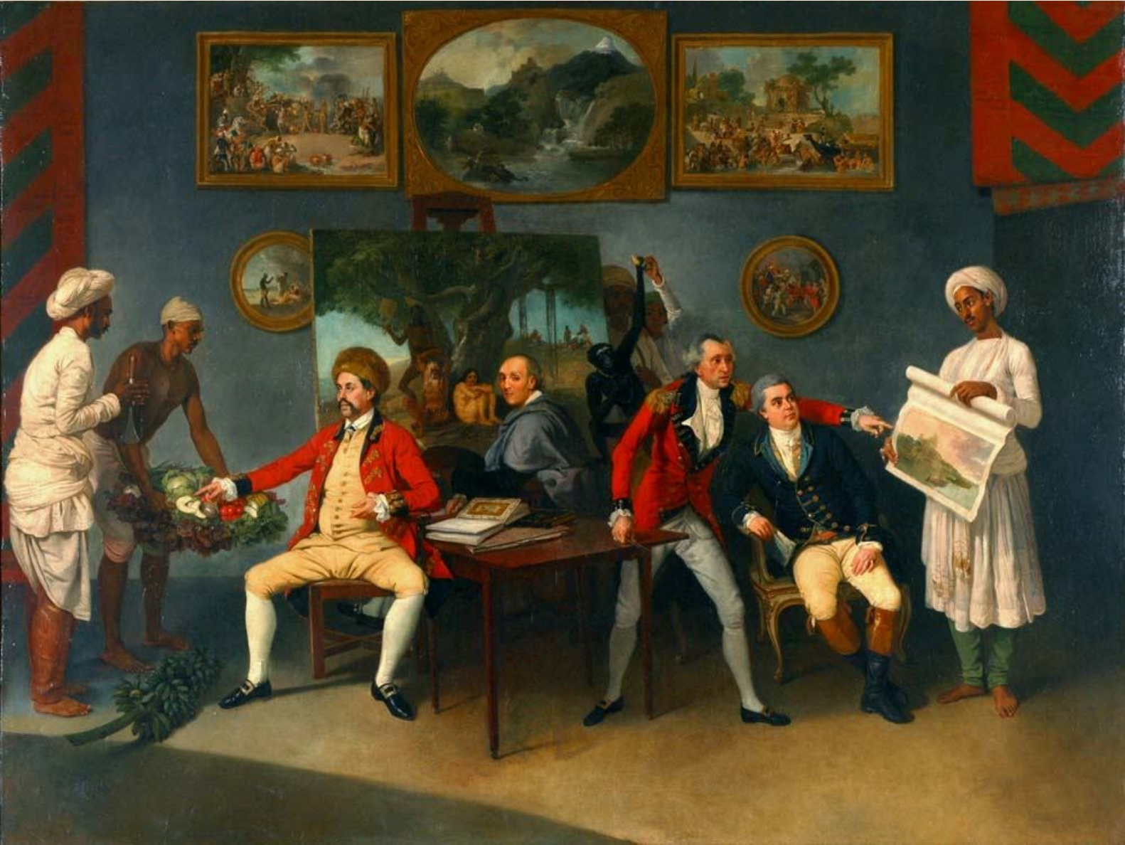 This is a painting by Johann Zoffany of Colonel Antoine Polier, Claude Martin, John Wombwell with himself in the background being waited on by Indian servants probably in Lucknow India. The painting is now in the Victoria Museum Calcutta. This image is from their web site.